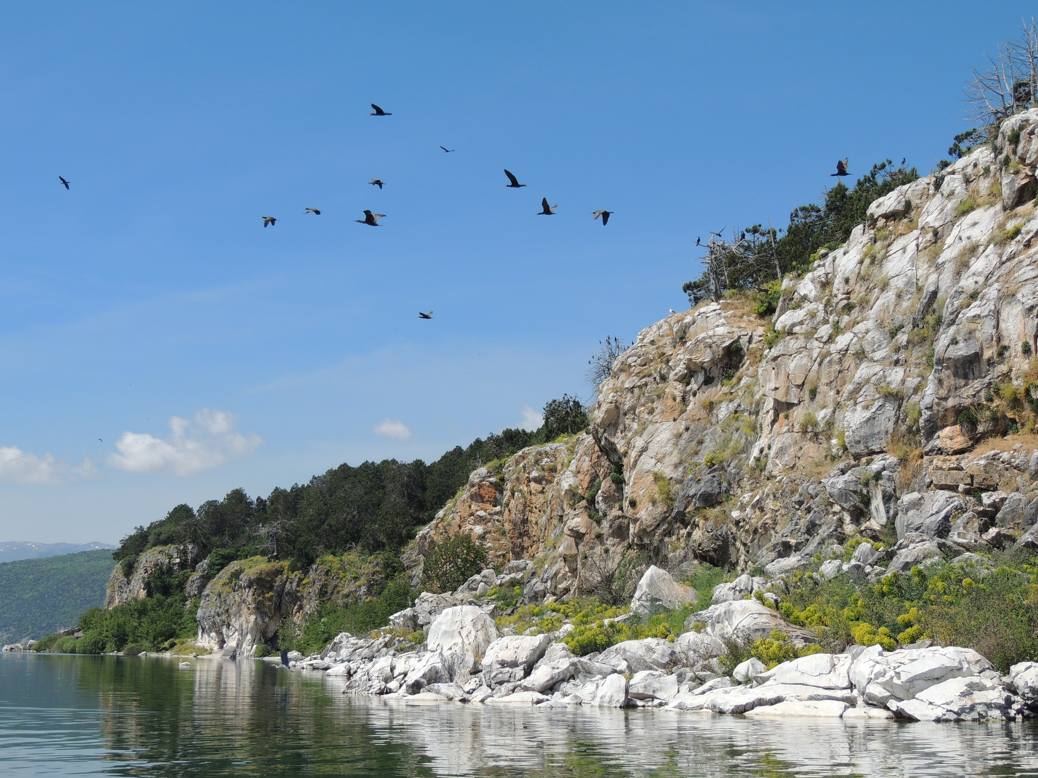 Watching breeding colonies of cormorants at Golem Grad, Prespa